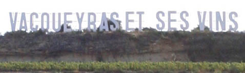 Inscription about the village of Vacqueyras (Vaucluse, France) and its wine